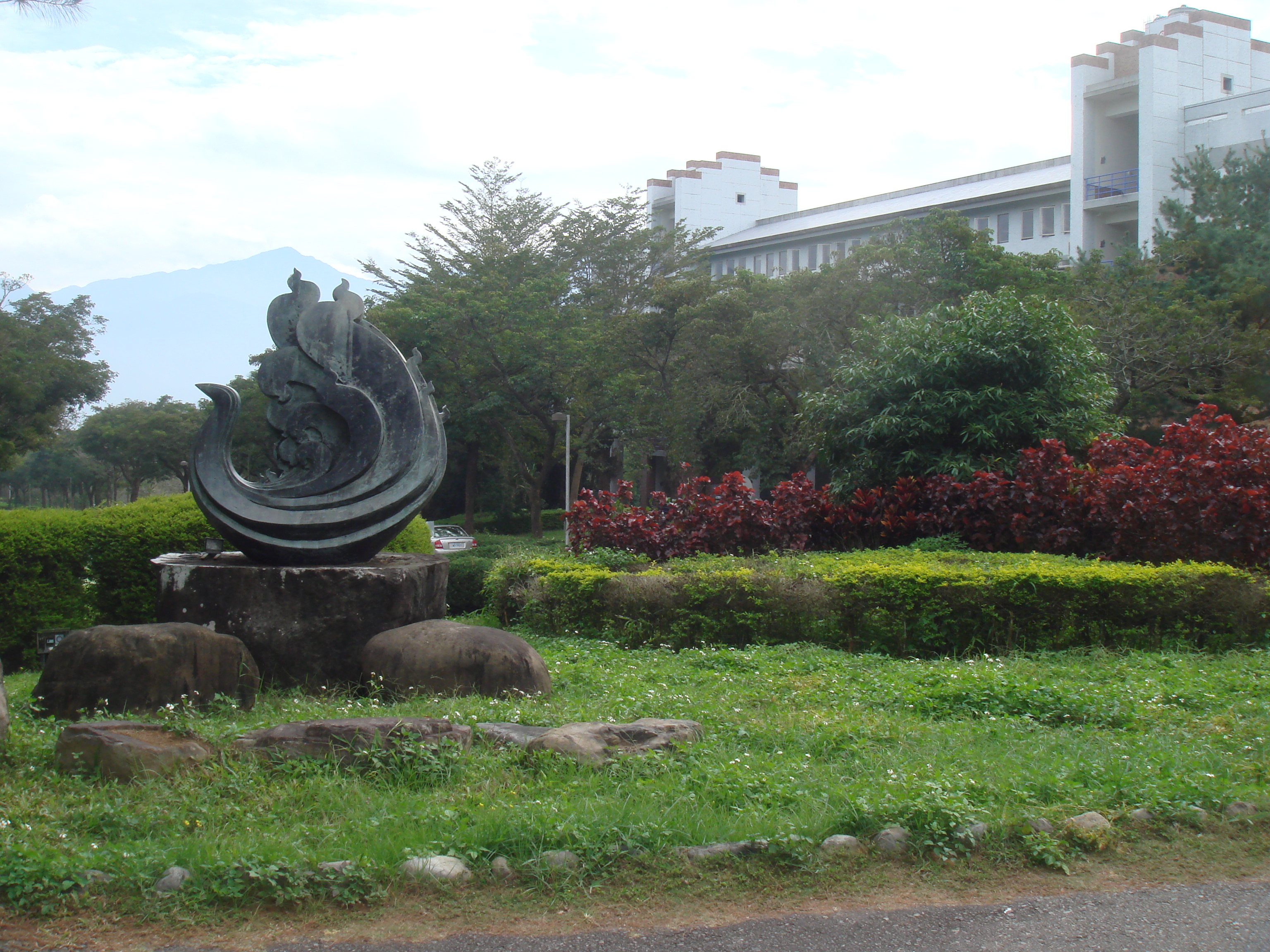 National Chi Nan University in Puli,Taiwan